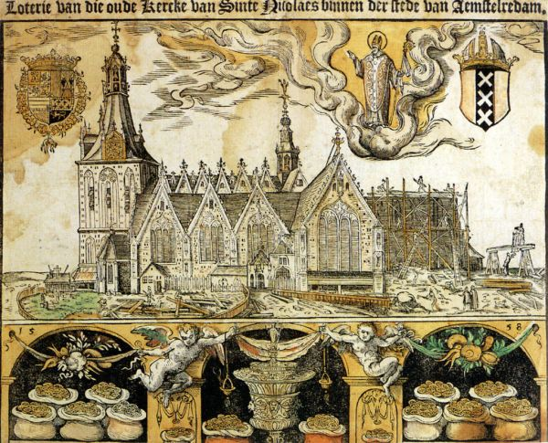 Lottery ticket for building the Oude Kerk choir, Amsterdam.